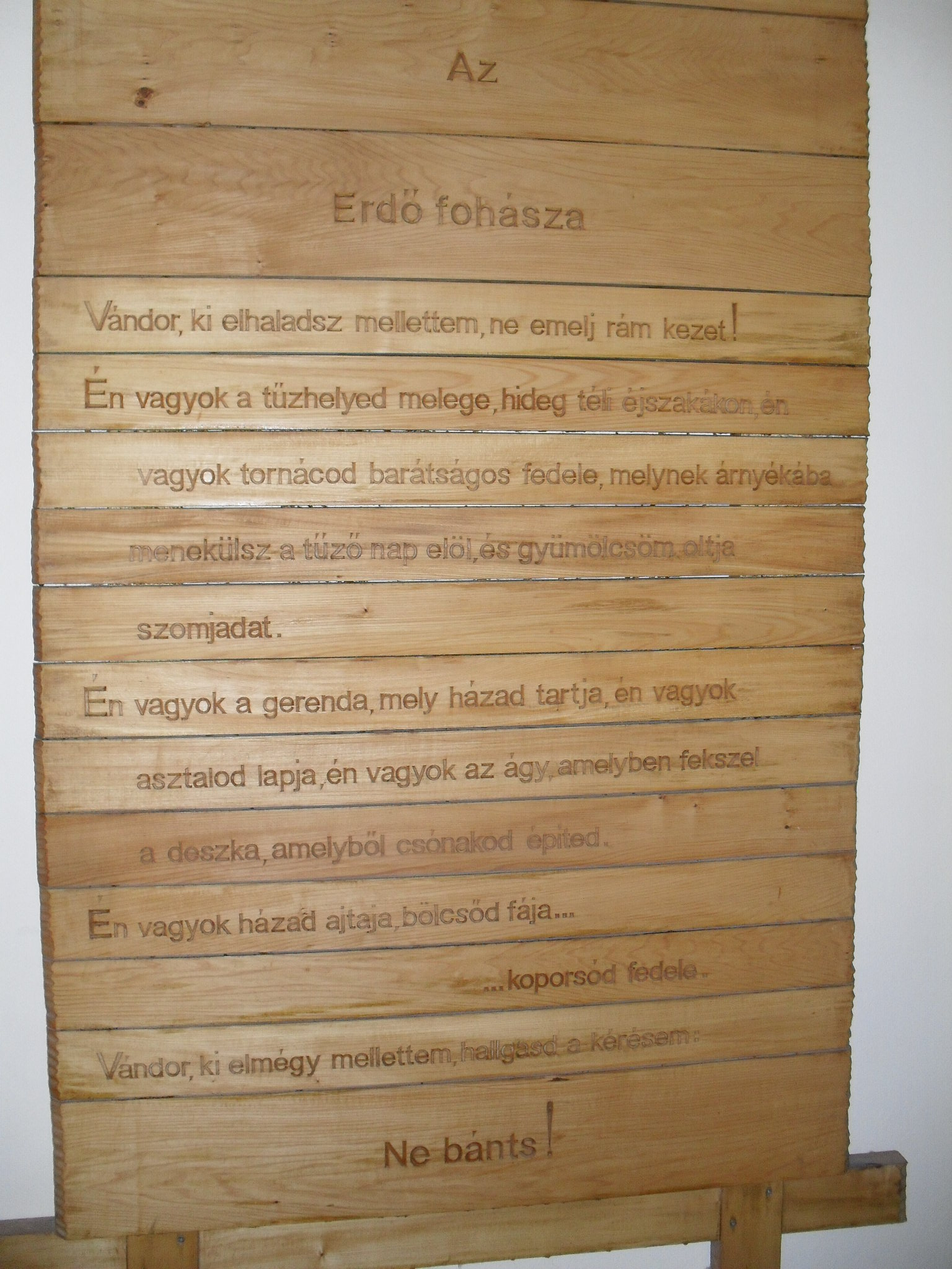 The prayer of the forest – translation of István Fekete from German. Hunting Museum Sopron